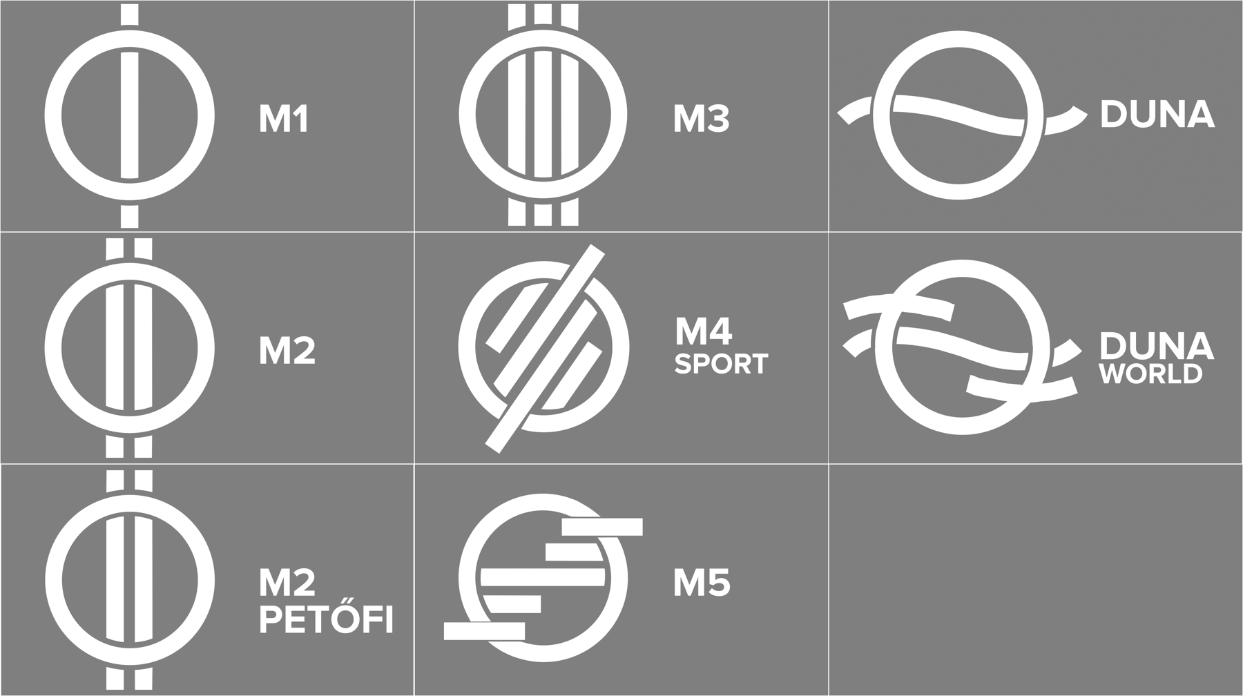 The corner logos of the TV stations of the Hungarian MTVA in monochrome.